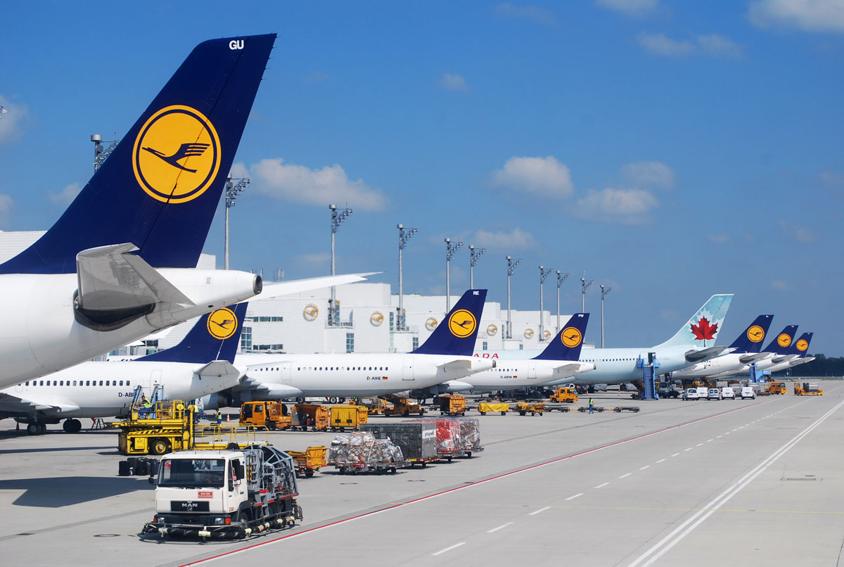 Lufthansa aircraft and one Air Canada aircraft at Munich Airport.